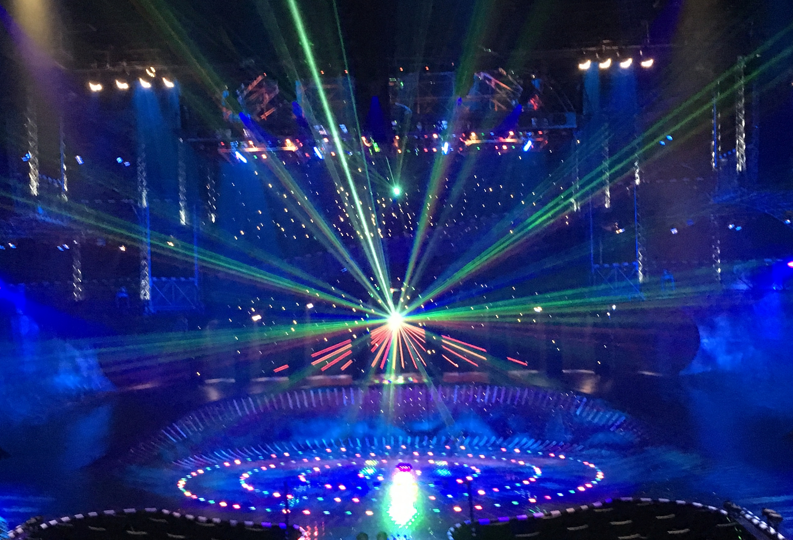 Starlight Express Theater, Bochum, Germany (May 2018) -- In the encore of the show and after the show, taking pictures and publishing them in the net is officially allowed.